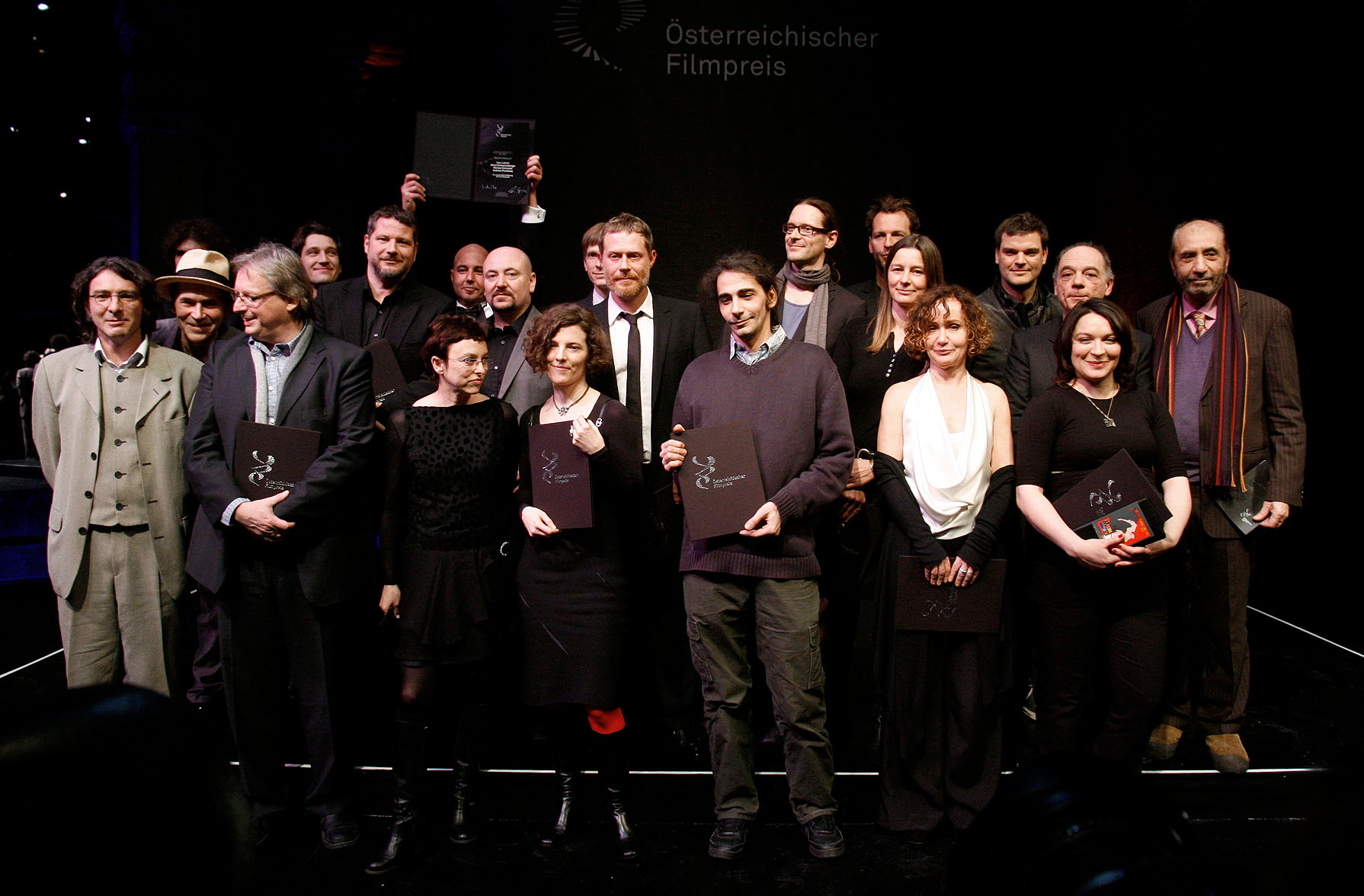 Winners of the Austrian Film Awards 2011 at the Odeon theater in Vienna.